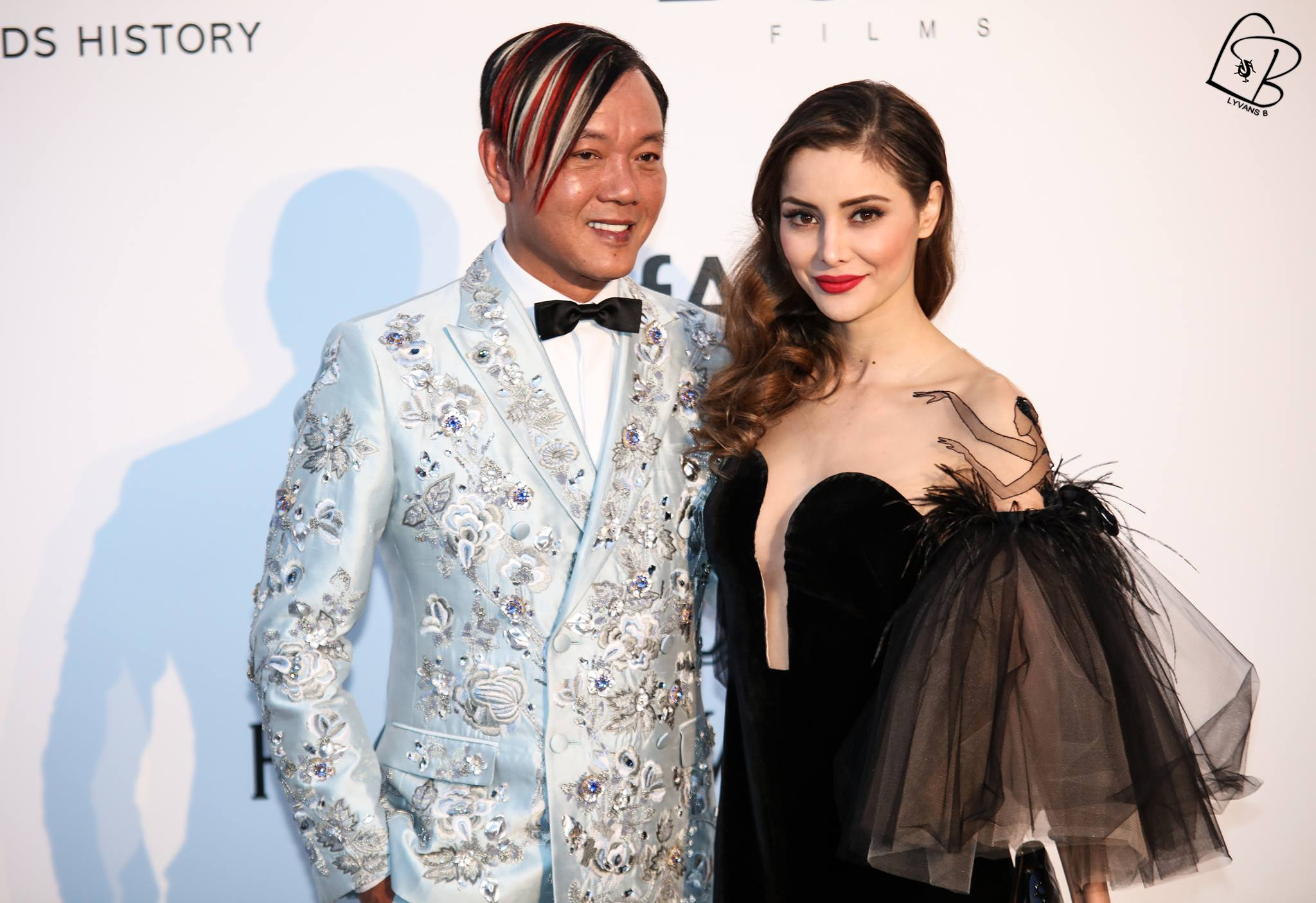 Stephen Hung and Deborah Hung arrivals at amfar2016, Antibes,France